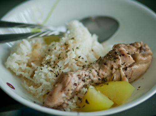 Home-cooked chicken tinola dish